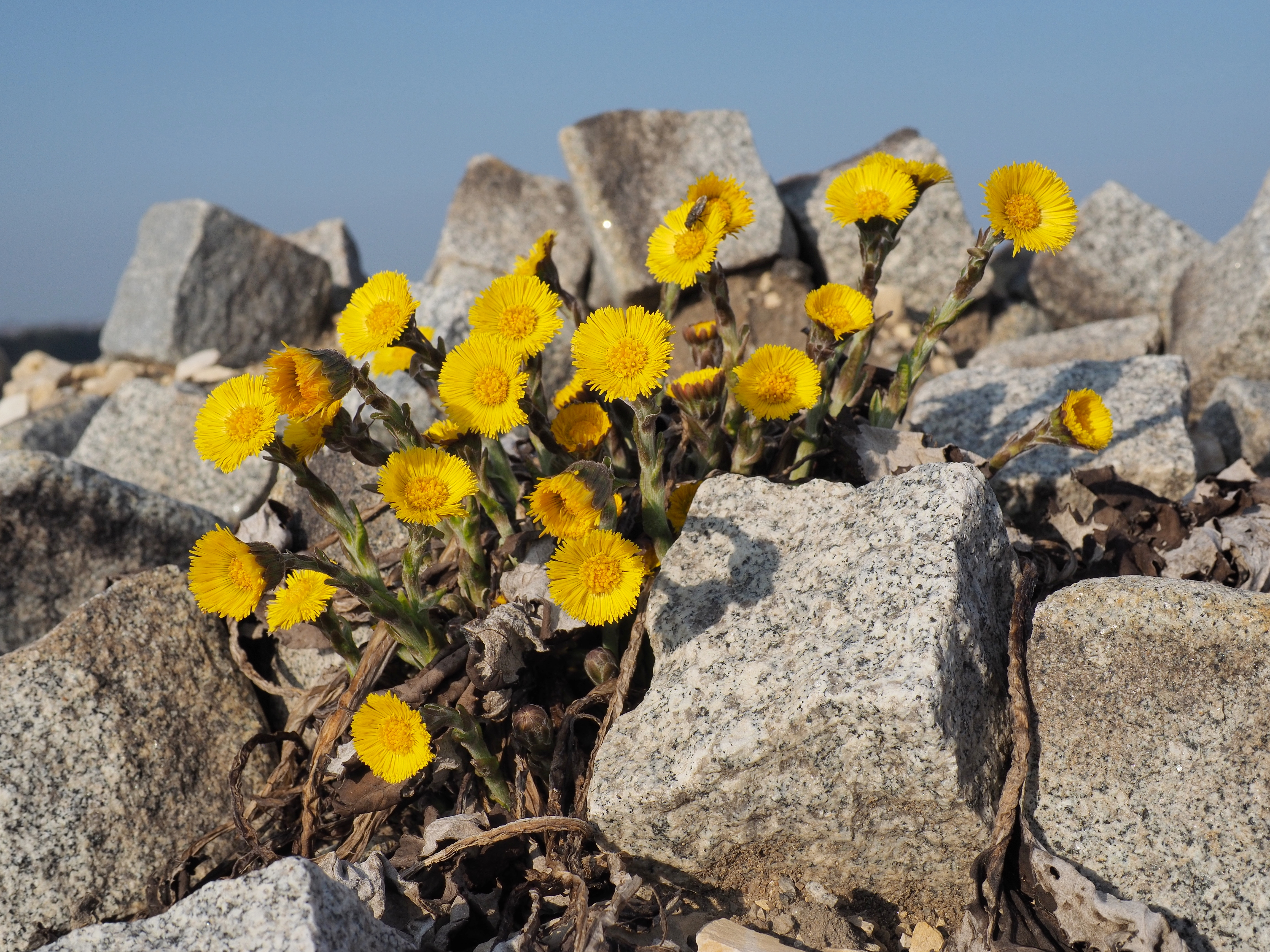 Tussilago farfara growing on a rubble tip